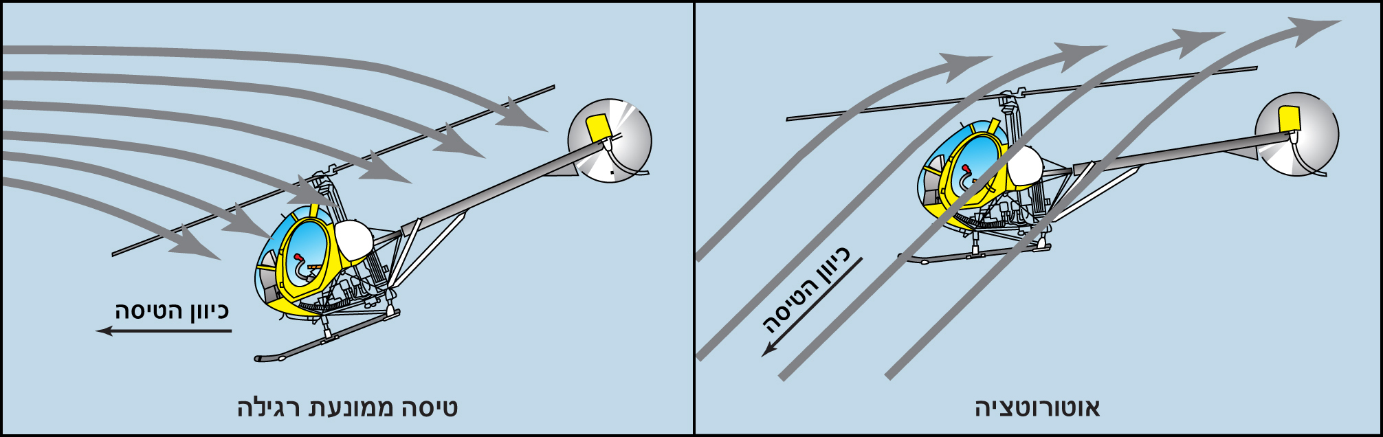 Autorotation - During an autorotation, the upward flow of relative wind permits the main rotor blades to rotate at their normal speed.